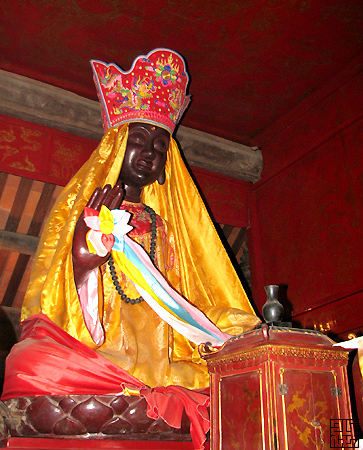 Phap Van (Cloud Goddess) statue in Dau pagoda, Bac Ninh, Vietnam